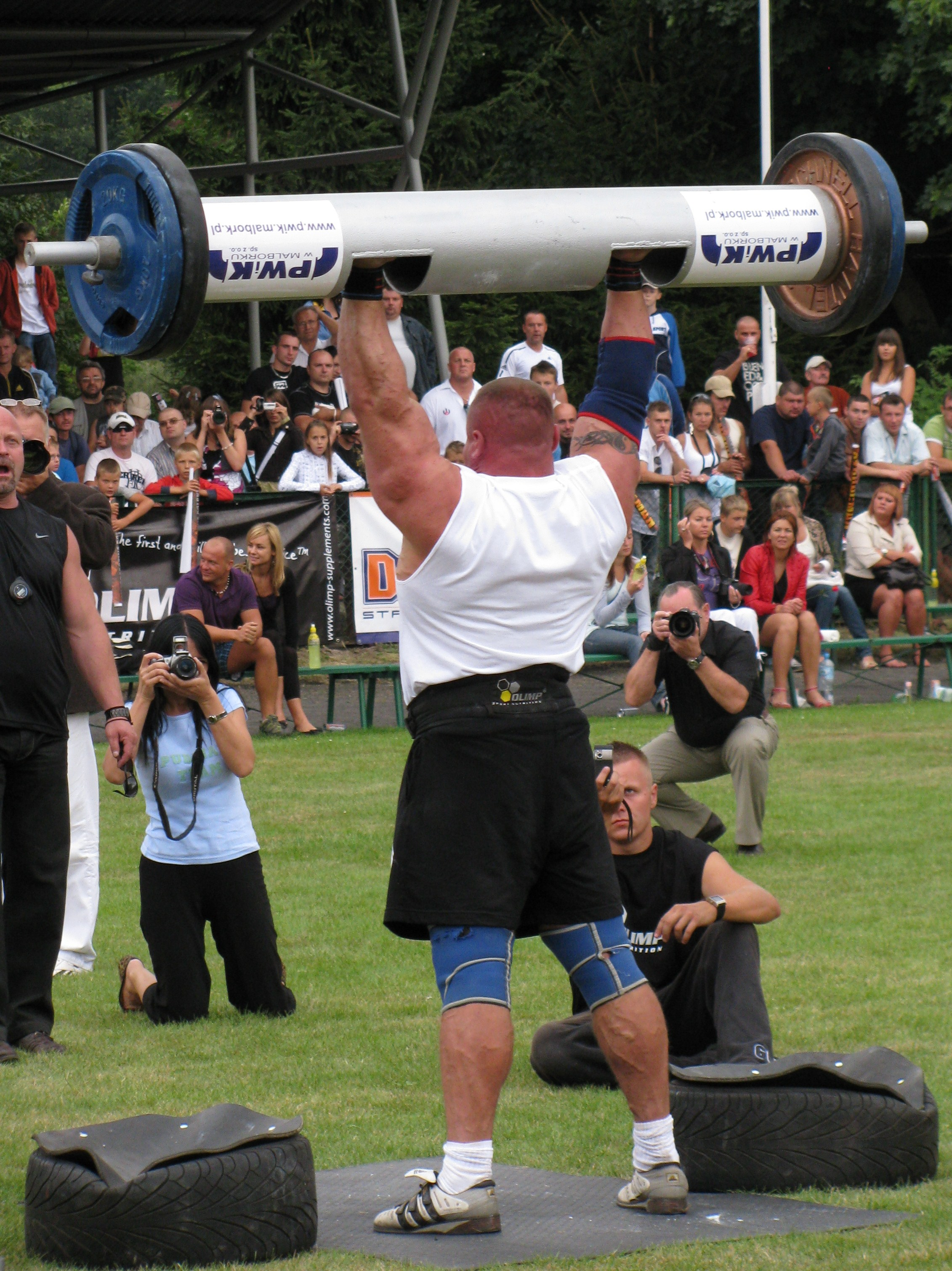 Strongmen event: the Log Lift.